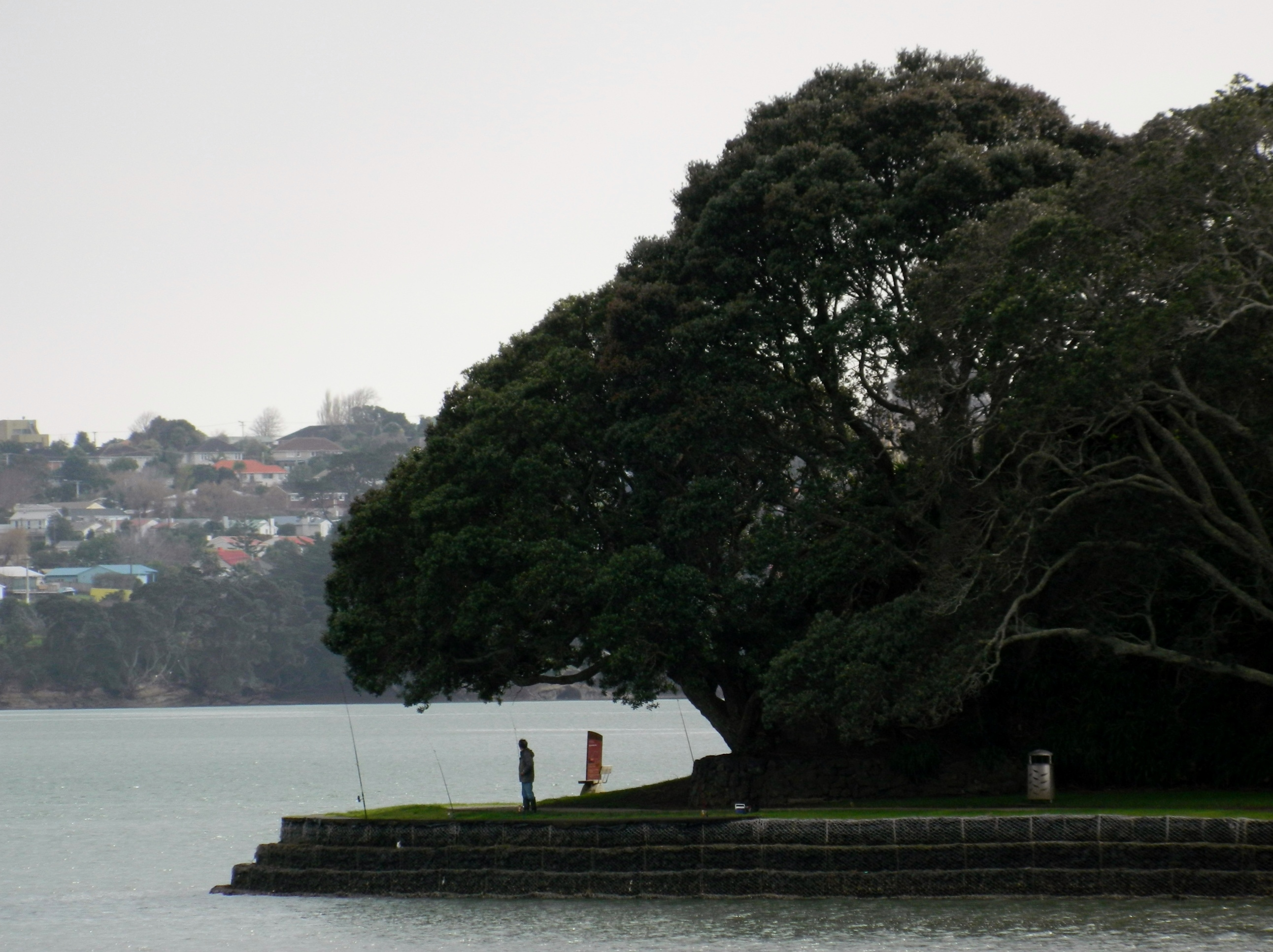 The walkway in Sunnyhills Pakuranga. The point where the fisherman like to go.